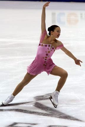 Charissa TANSOMBOON at the 2007-2008 Junior Grand Prix event in Lake Placid, New York, United States.